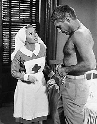 Juliet Mills and Sam Elliott in publicity still for Once an Eagle miniseries (1976)